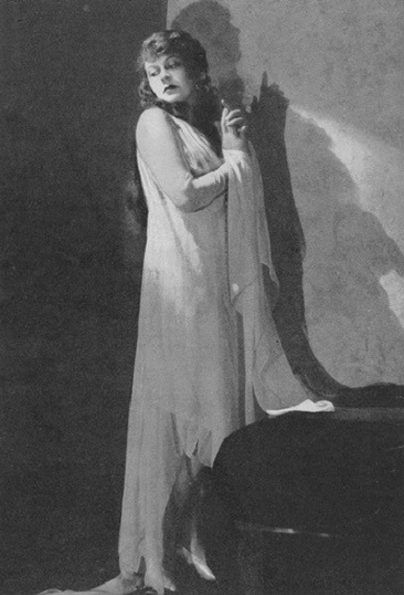 Lenore Ulric as Mima